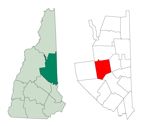 Created from Boundary/Border Outline Files of the Libre Map Project which held a BY-SA creative commons license. Data origionally from 2000 US Census boundary data.